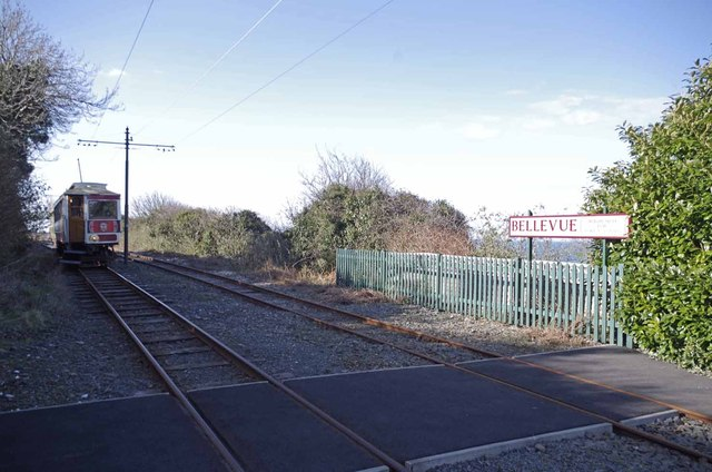 The Last Tram to Douglas at Bellevue station